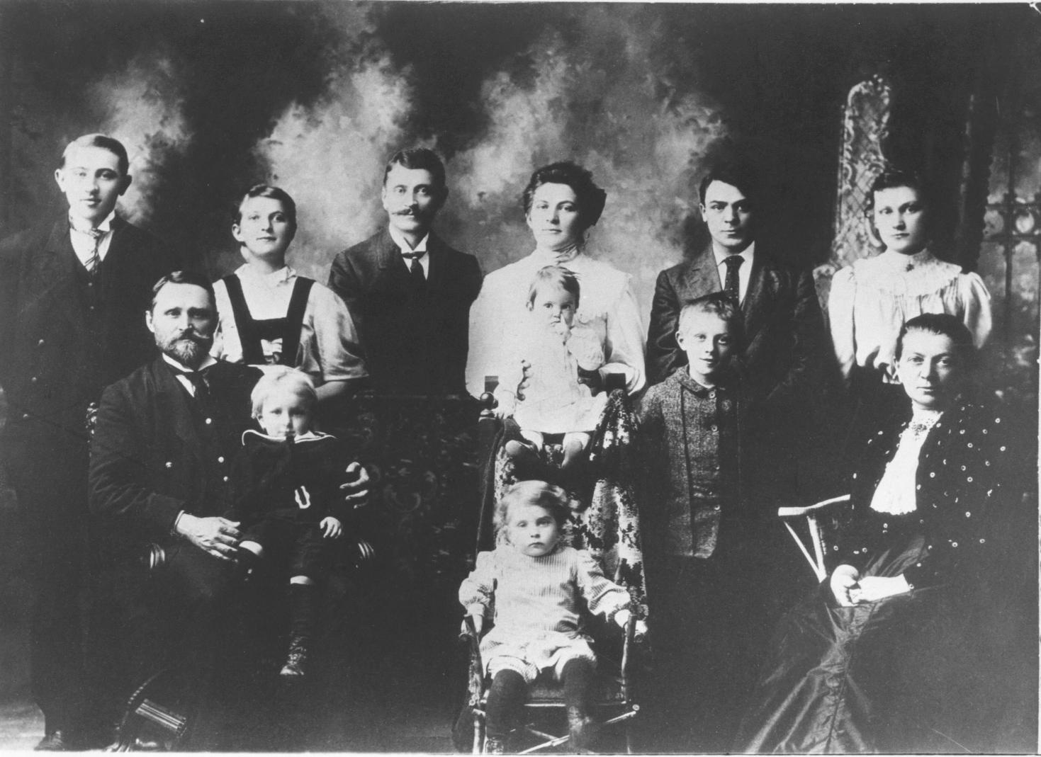 Cyril and Paulina Genik with family Jones in Winnipeg in year 1906